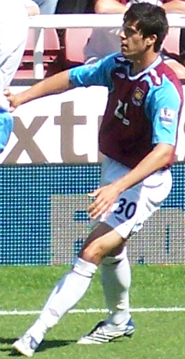 James Tomkins. Image cropped from original at flickr.